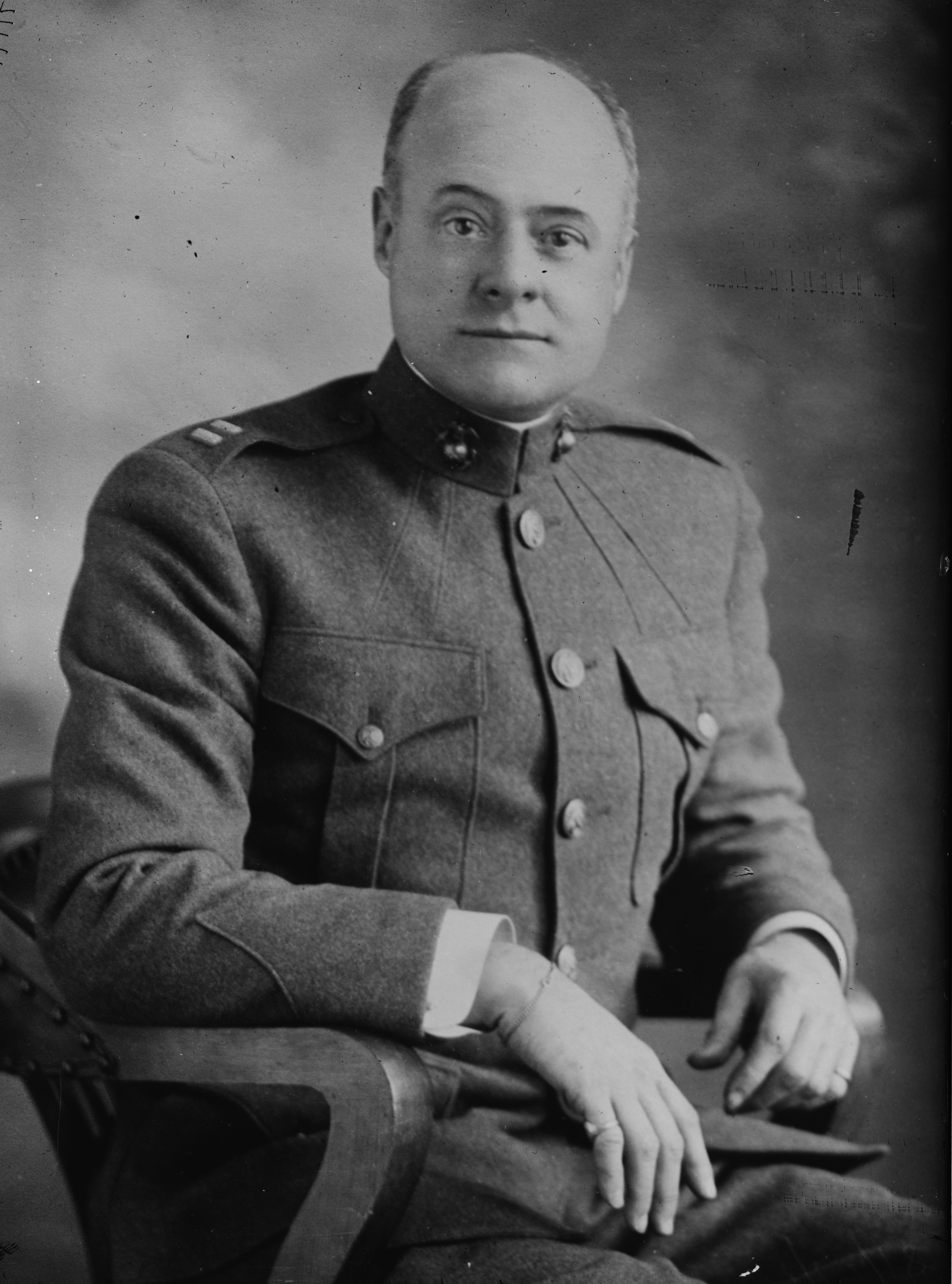 Captain Anthony Joseph Drexel Biddle, Sr. in 1918